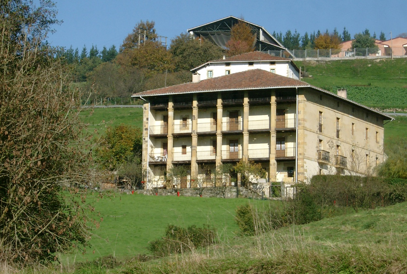 Arana palace, Mallabia (Biscay, Basque Country)